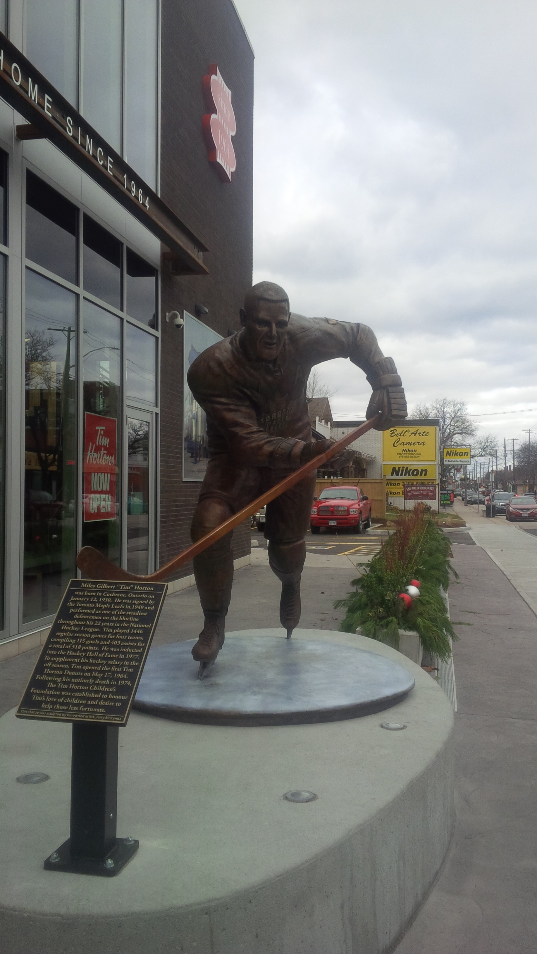 Statue of Tim Horton on the site where the Original Tim Hortons once stood